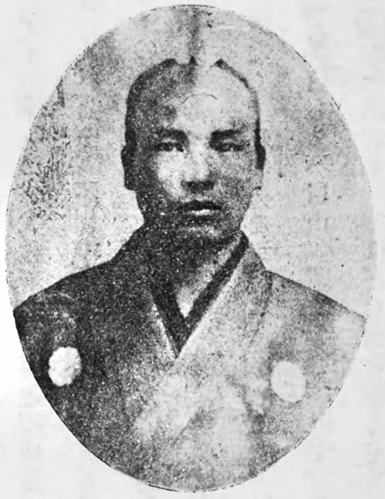 Udono Danjirō, a samurai of Nagaoka Domain.